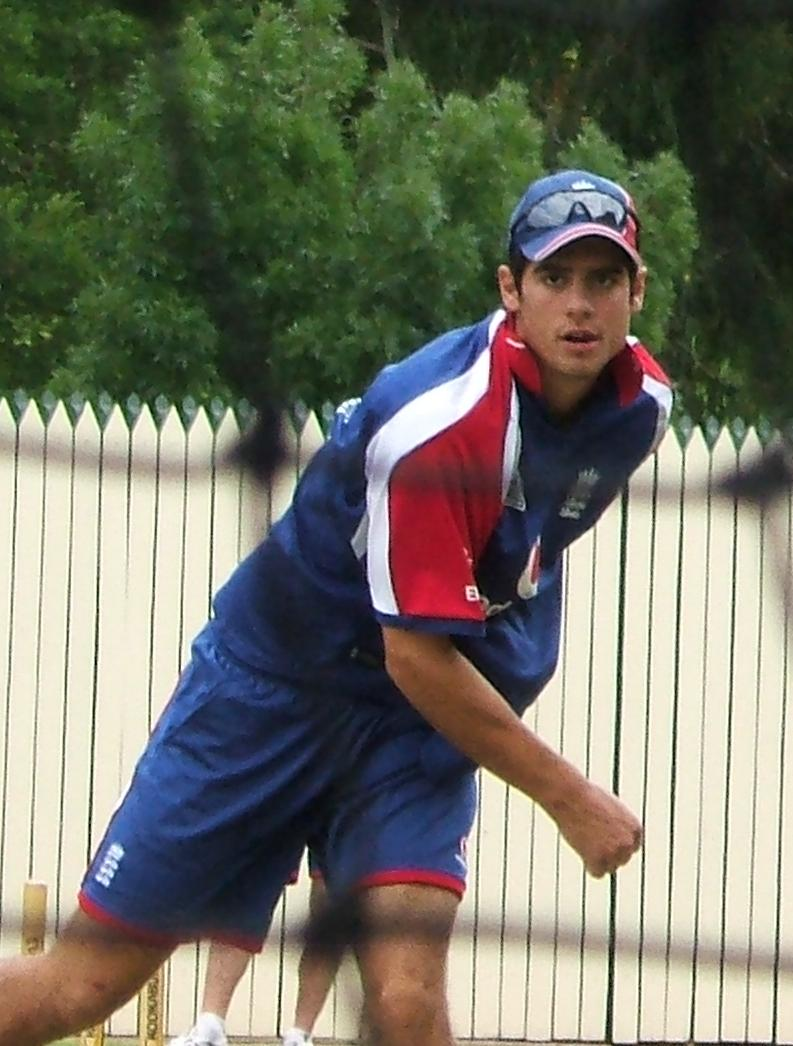 Alastair Cook, bowling at Adelaide Oval cricket nets